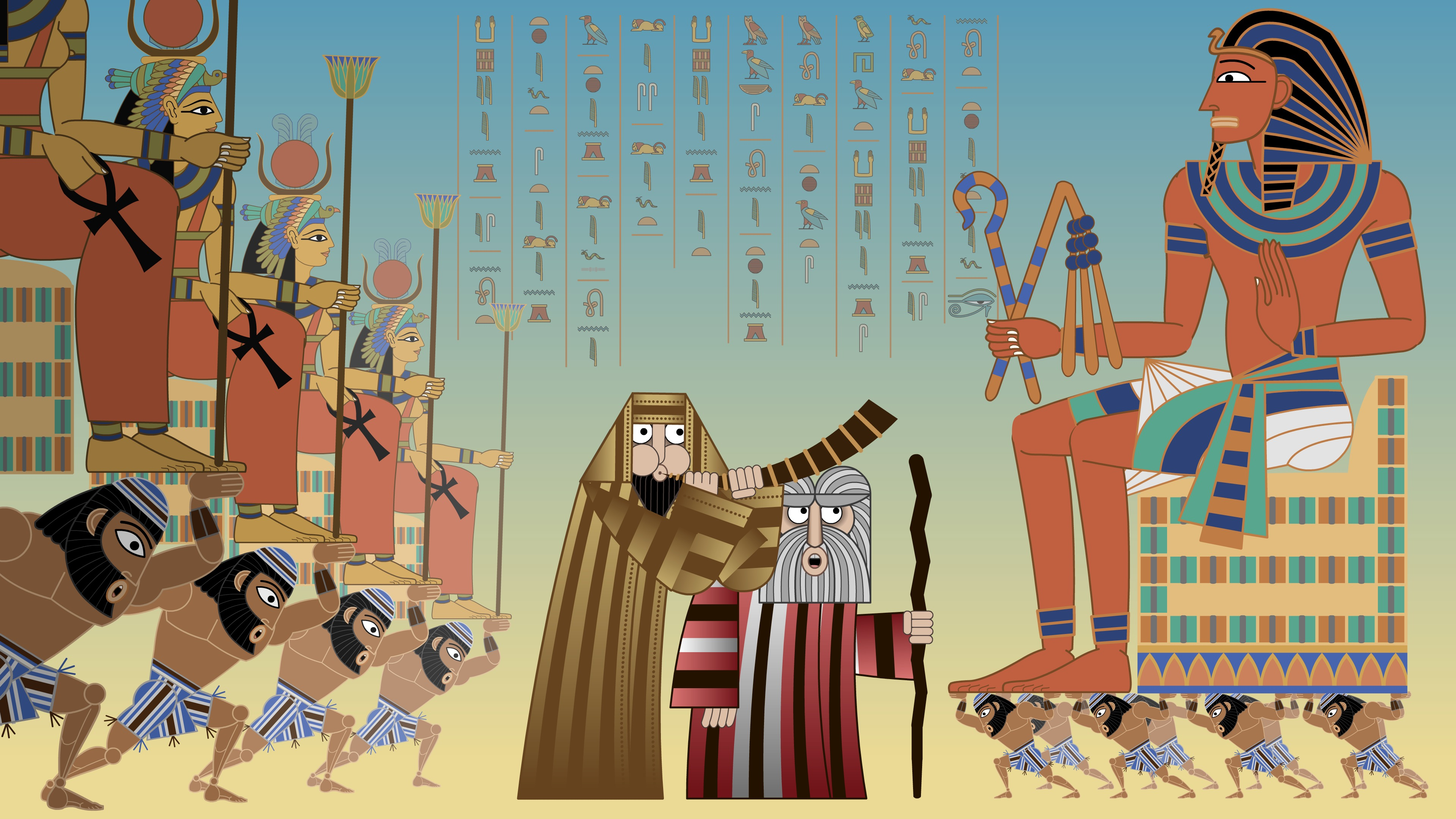 Still from the 2018 animated feature film Seder-Masochism by Nina Paley.